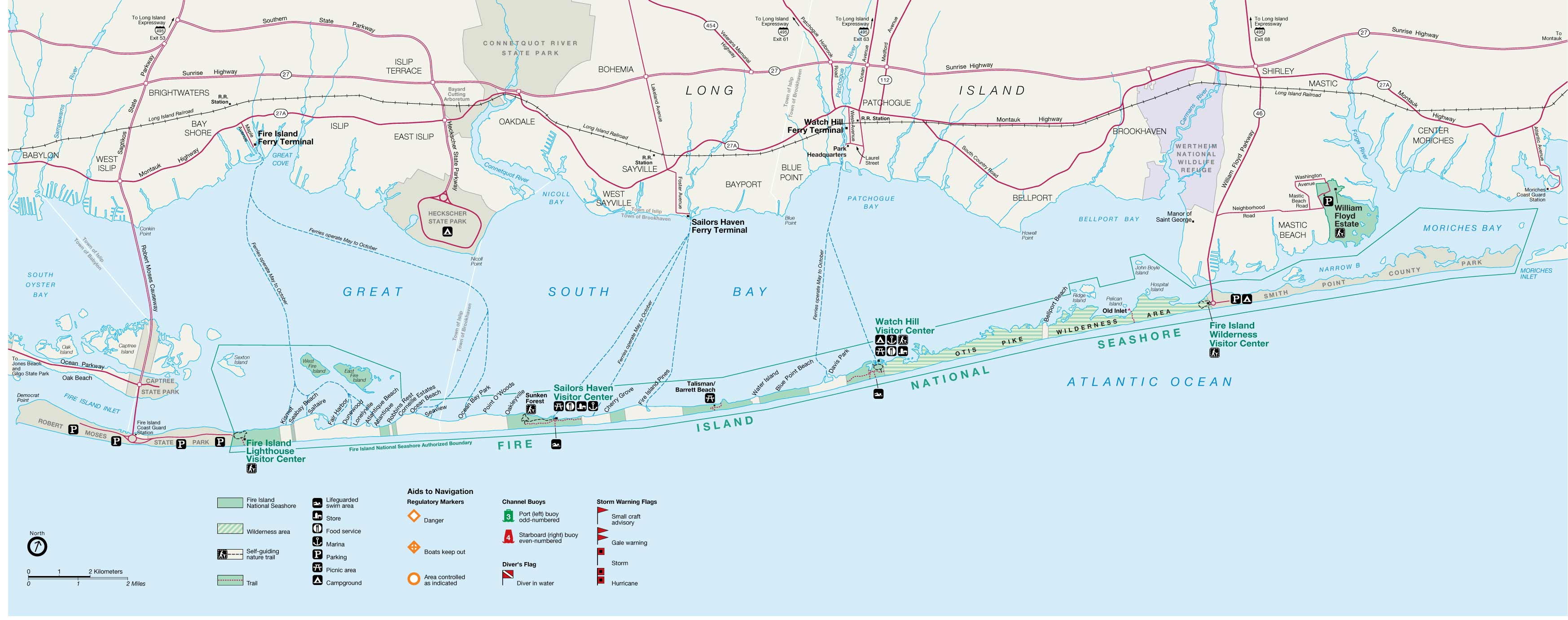 Fire Island map from USGS